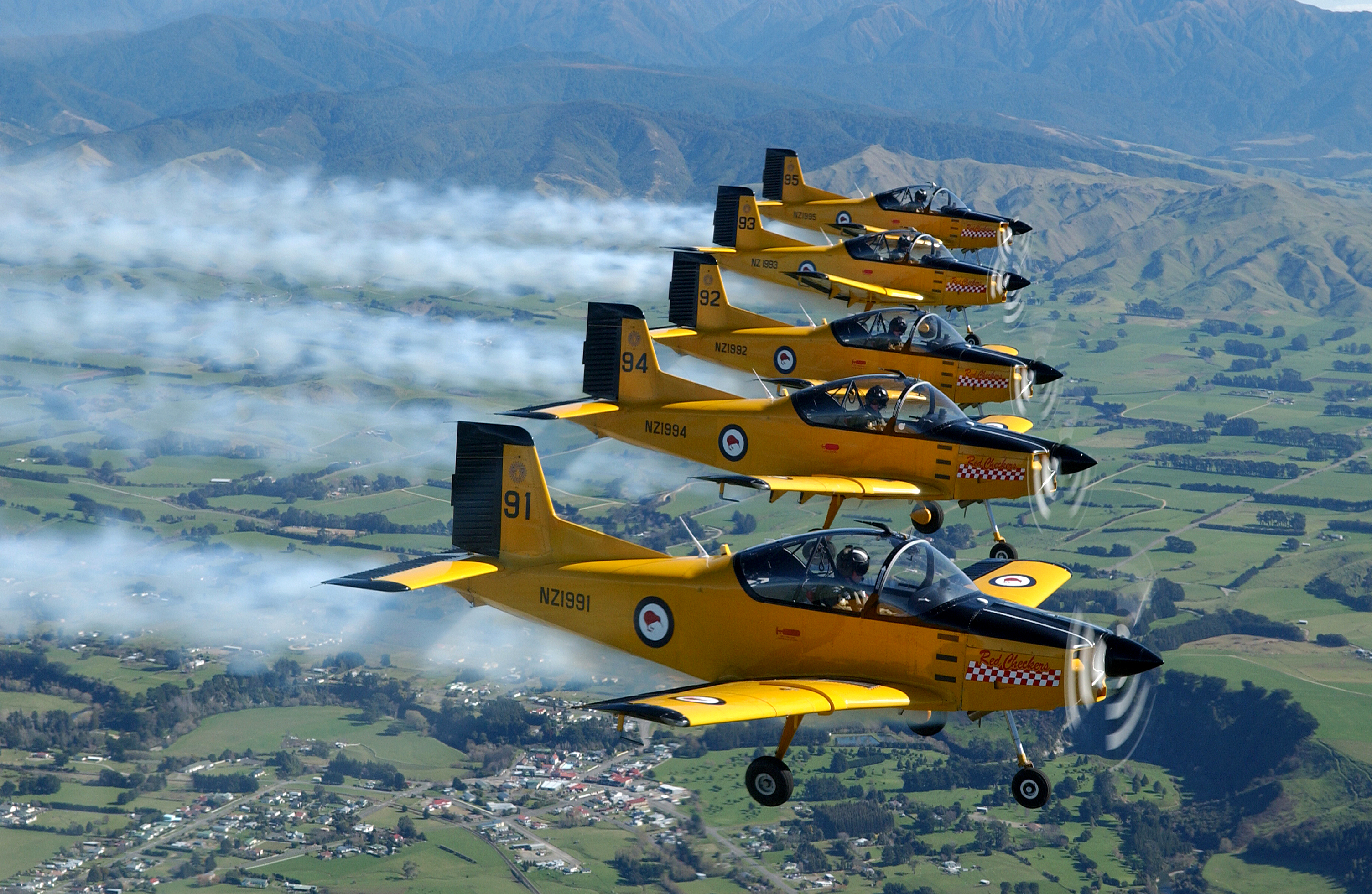 Air Trainer five-ship formation OH 07-0612-87 Crown Copyright 2011, NZ Defence Force – Some Rights Reserved.